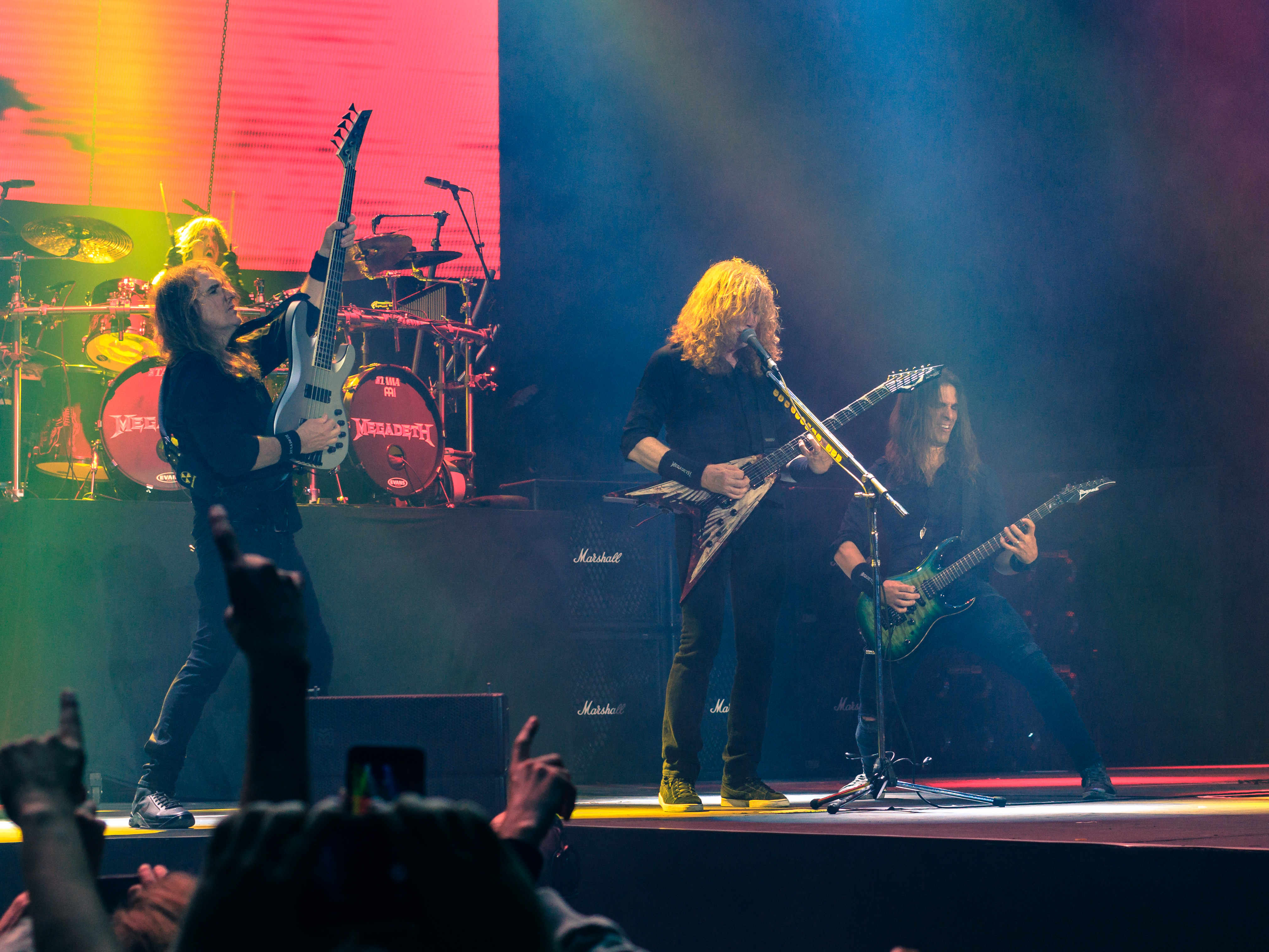 Megadeth performing live at The O2, London, 16 June 2018